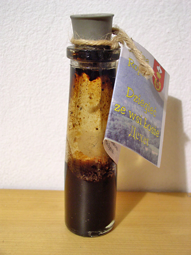 Author: PrzemekL A bottle containing wood tar. A souvenir from the village Losie in Poland. The main use of this substance is to treat skin problems.